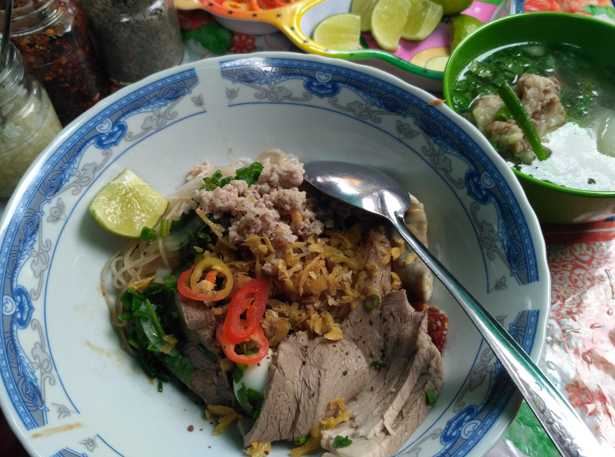 Vietnamese noodle "Hủ Tiếu Nam Vang khô". in Thái Bình market Saigon. 2016 Sep.